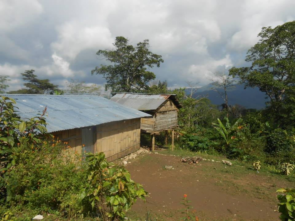 Soibada, East Timor